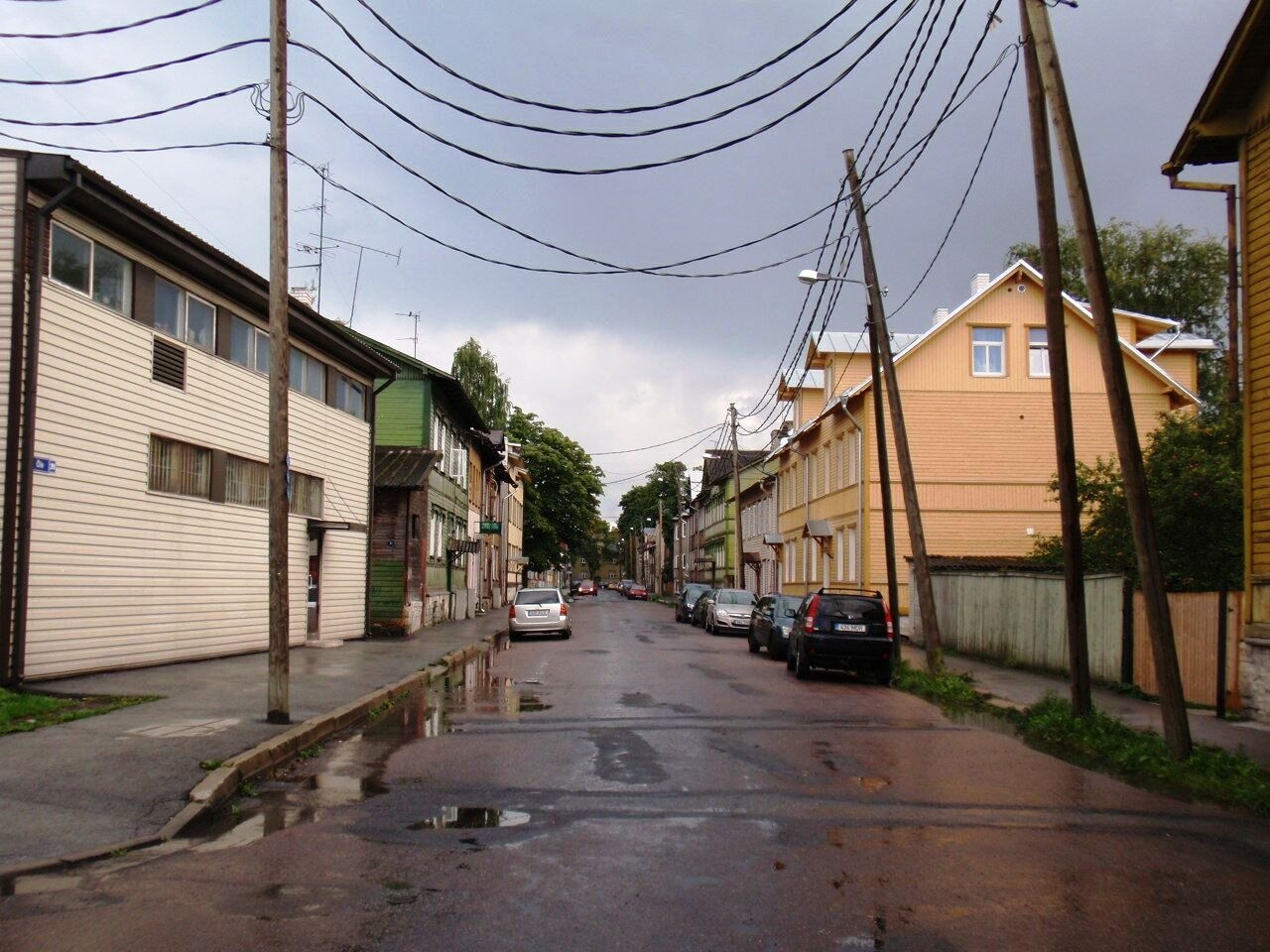 Õle street, Pelgulinn, Tallinn.